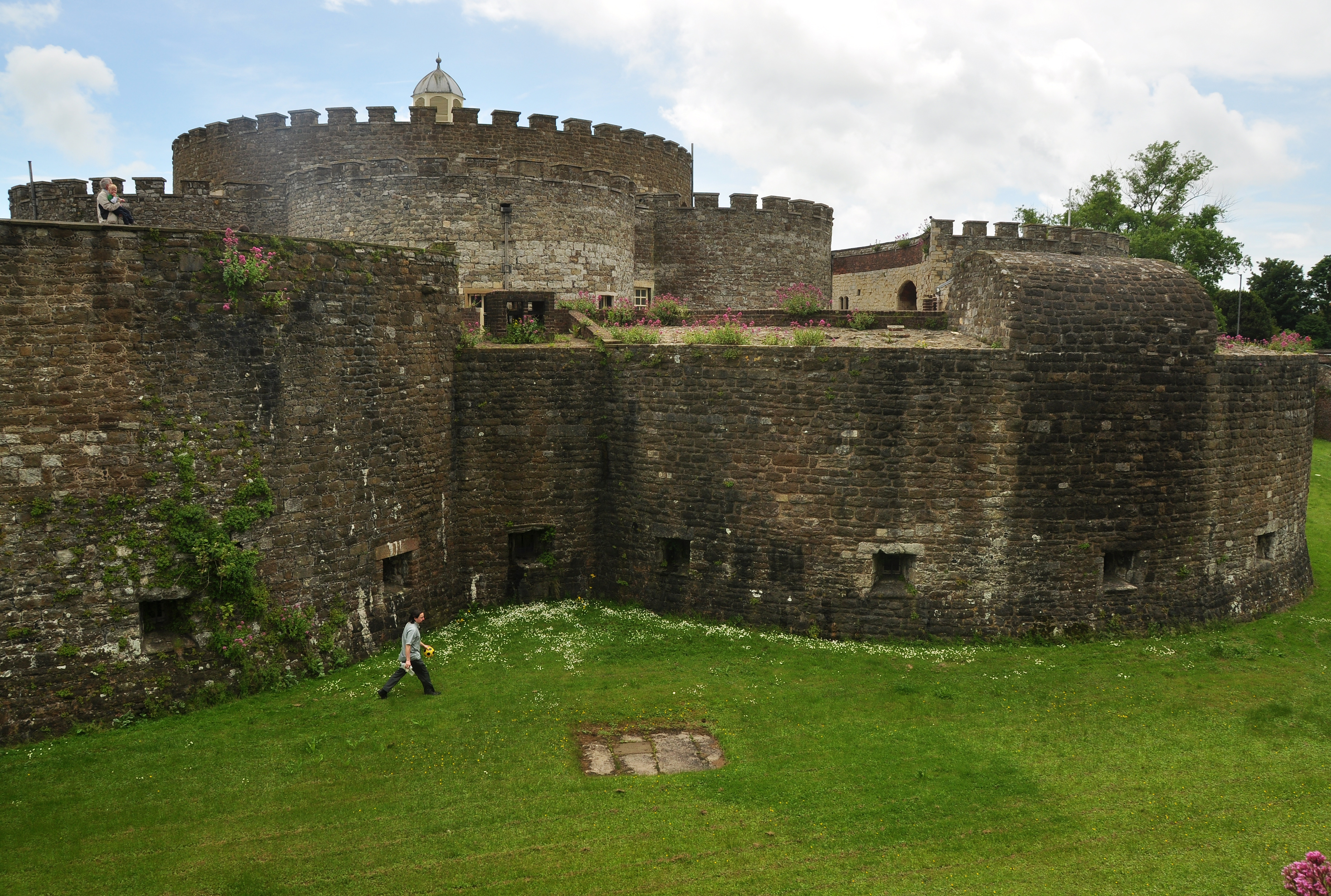 Exterior view of Deal Castle in Kent.